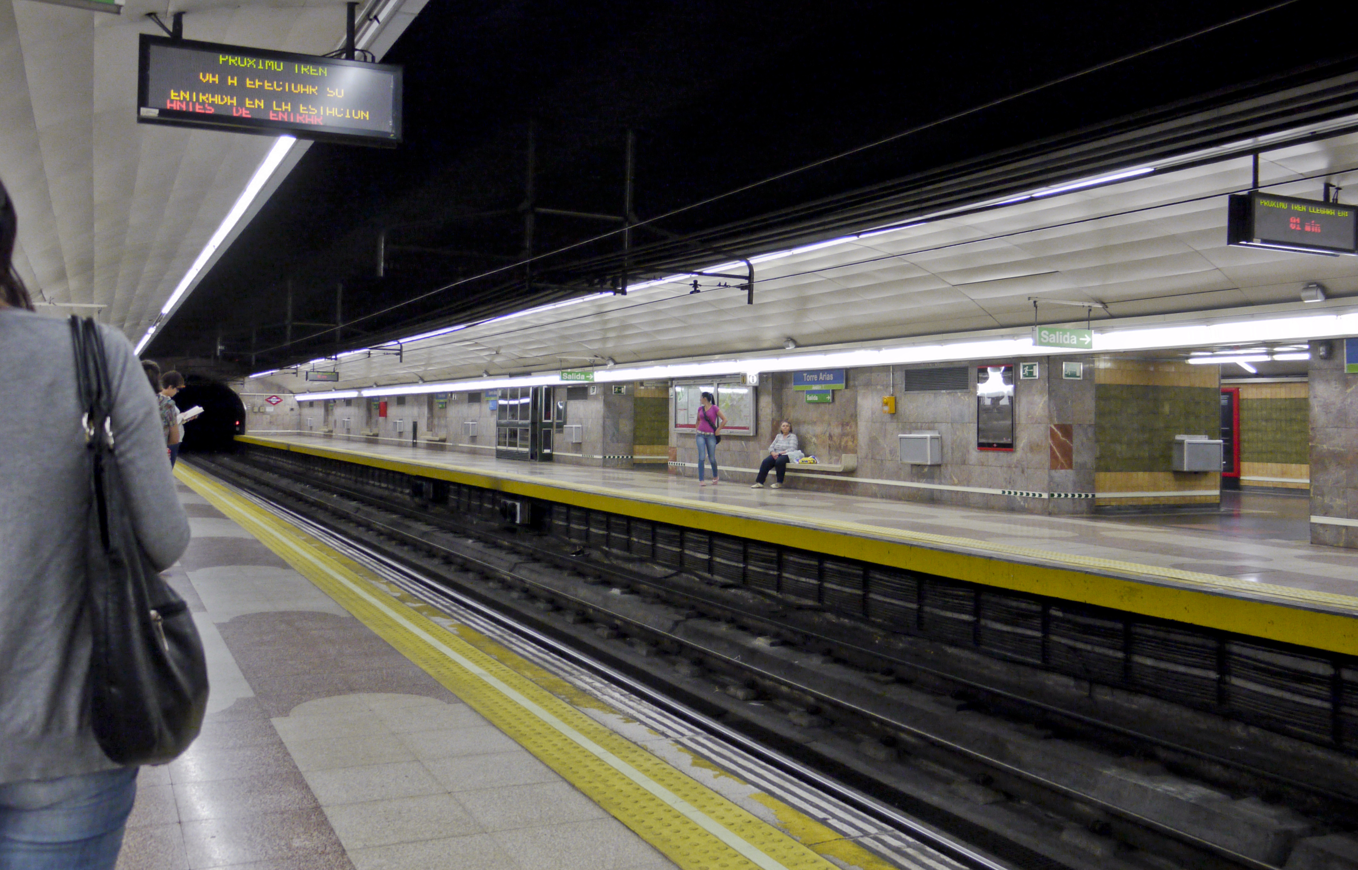 Madrid metro station: Torre Arias. Linje 5. Madrid, Spain.